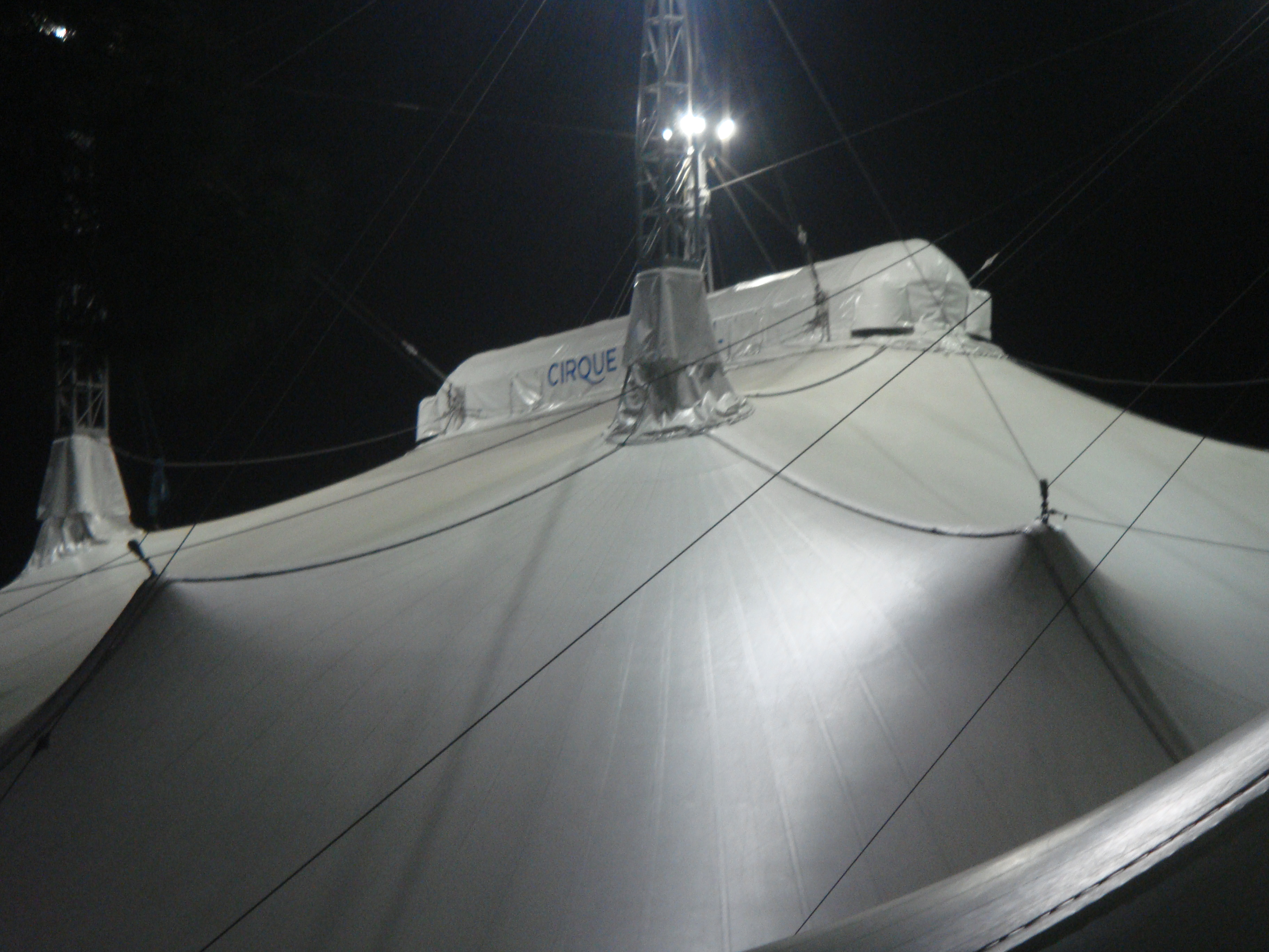 Cirque du Soleil's Corteo Grand Chapiteau. Photo shot at Puerta del Ángel in Madrid, Spain.